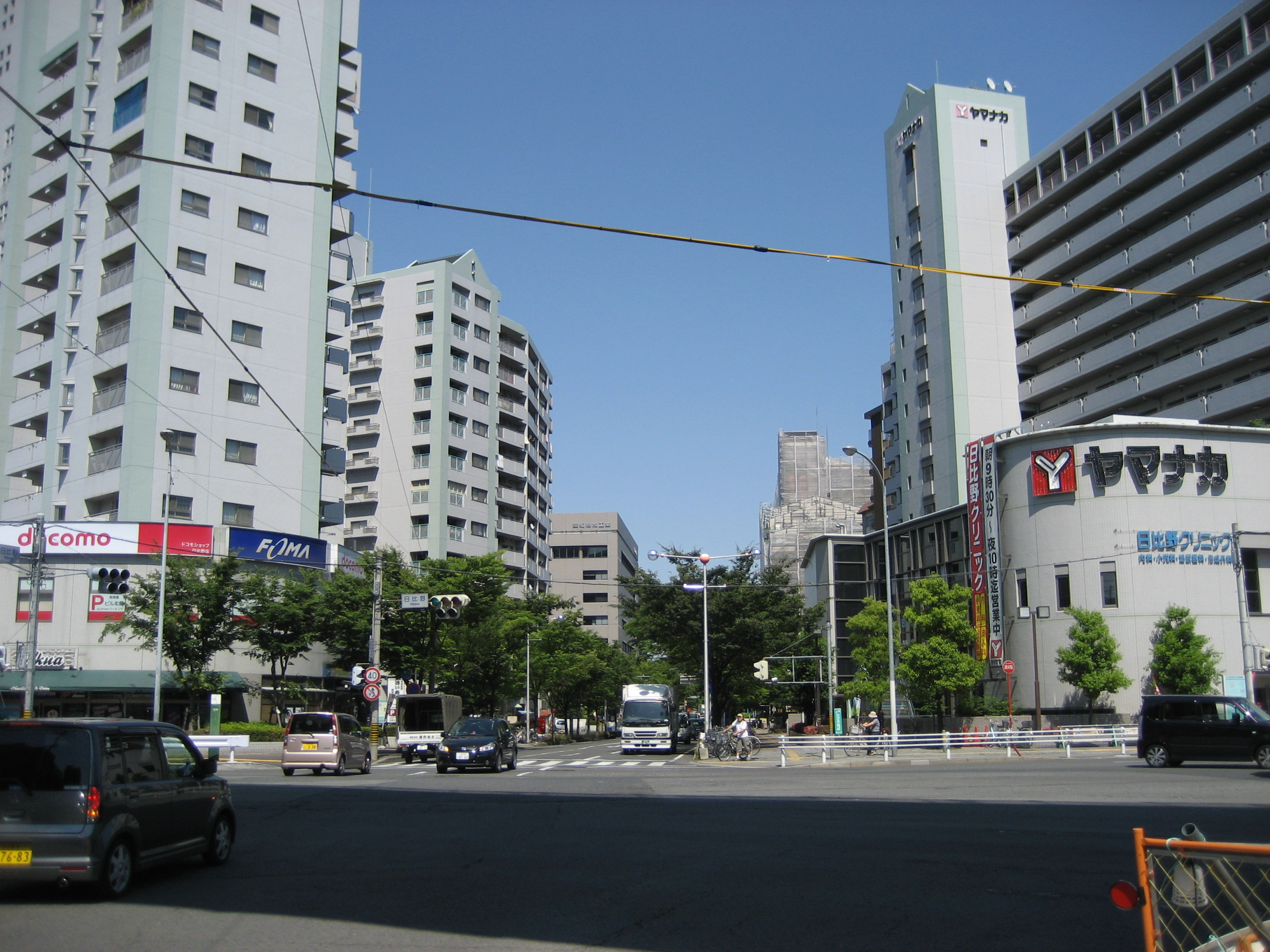 Hibino Intersection